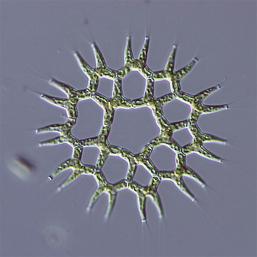 Pediastrum duplex Meyen 1829 / from Shishitsuka-Pond, Tsuchiura, Ibaraki Pref., Japan / Microscope:Leica DMRD (DIC)